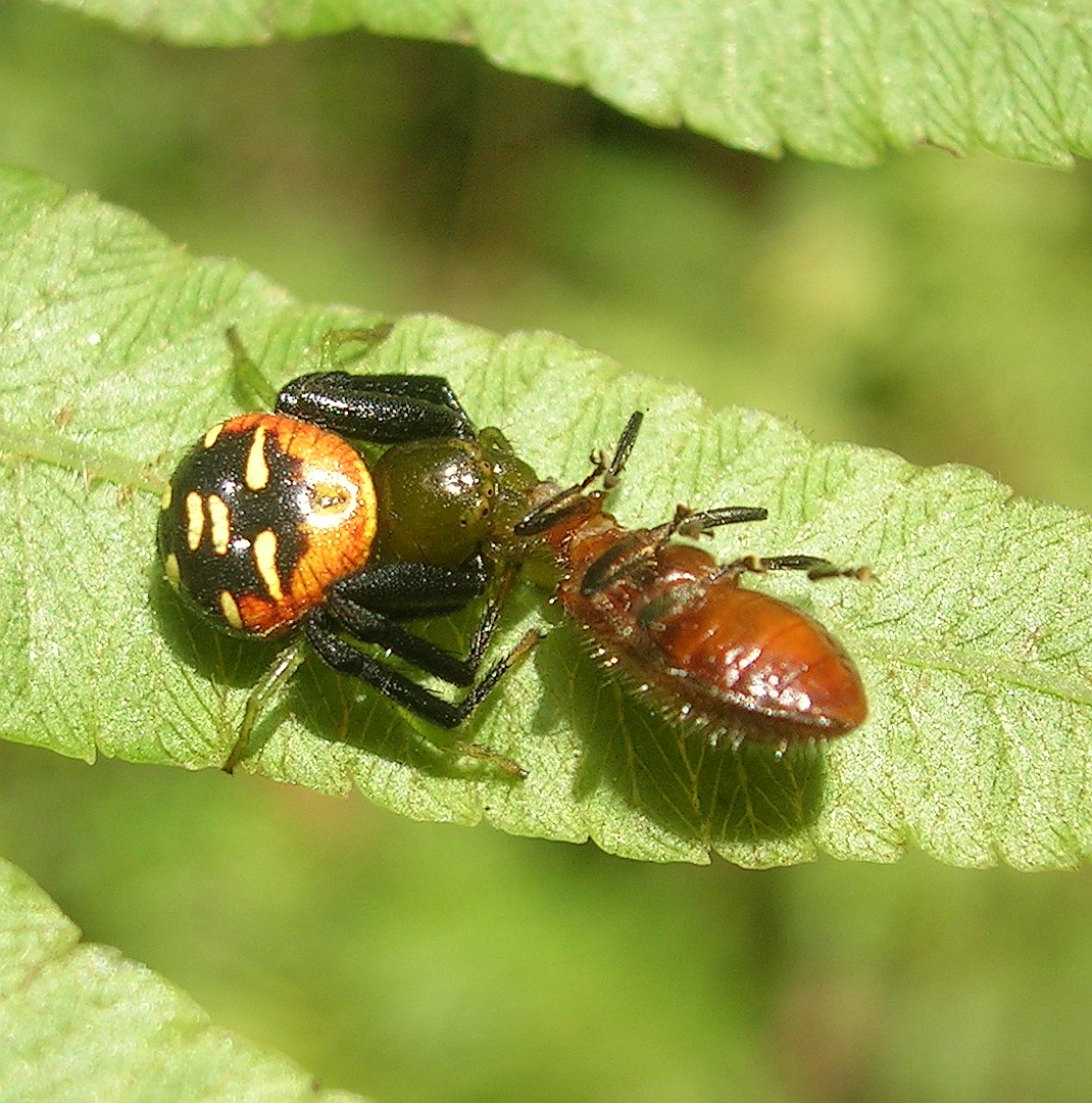 Unidentified spider genus Camaricus close to C. khandalaensis (family Thomisidae) from Wayanad, Kerala, India. Determination by Dr Manju Siliwal (by email 16 April 2008)